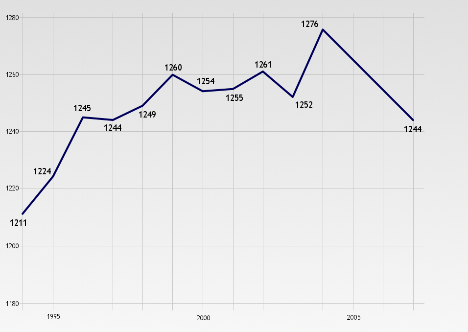 Demographic survey of Wingerode, Germany